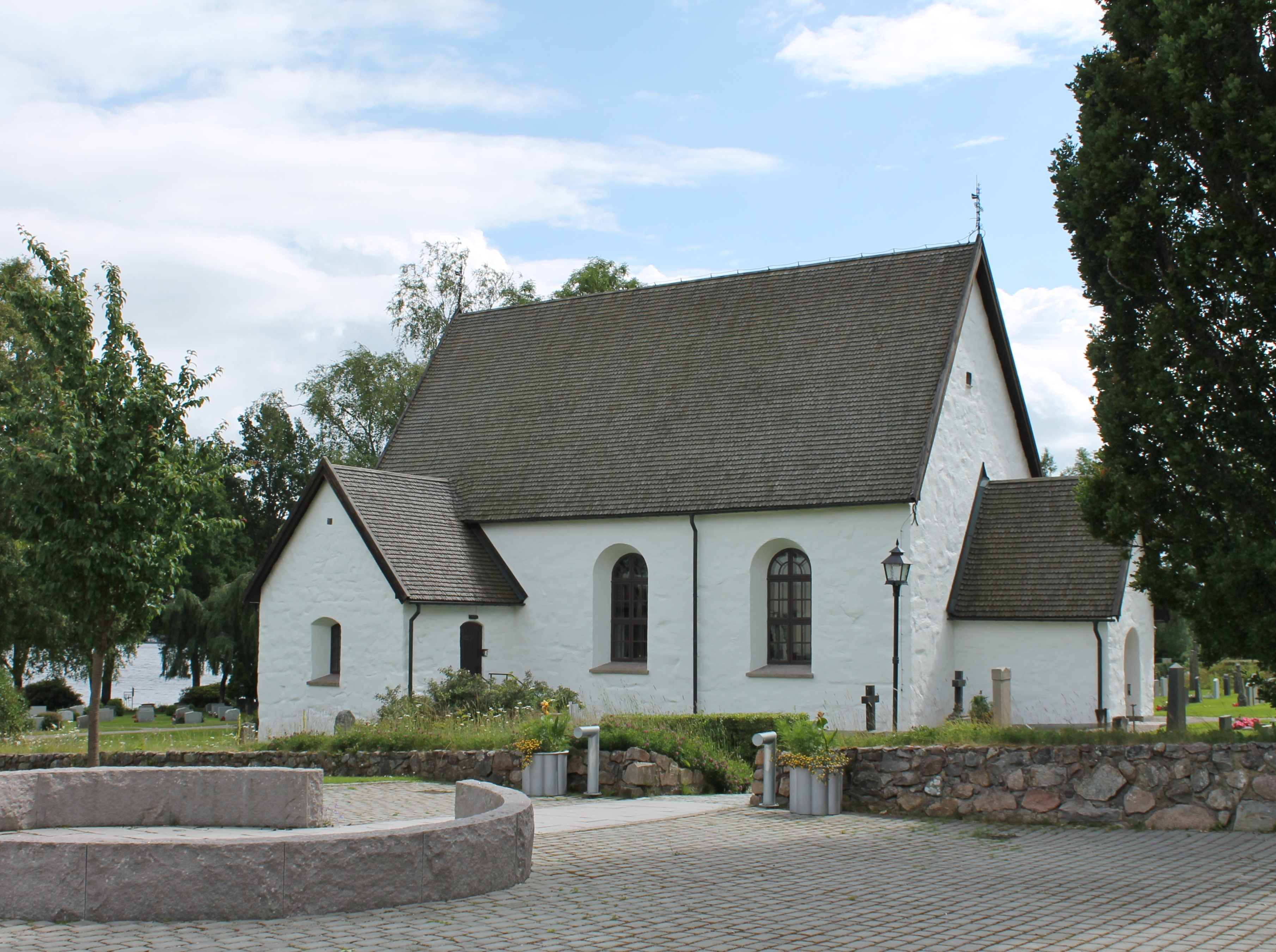 Öjaby Churh.Church viewed from the north